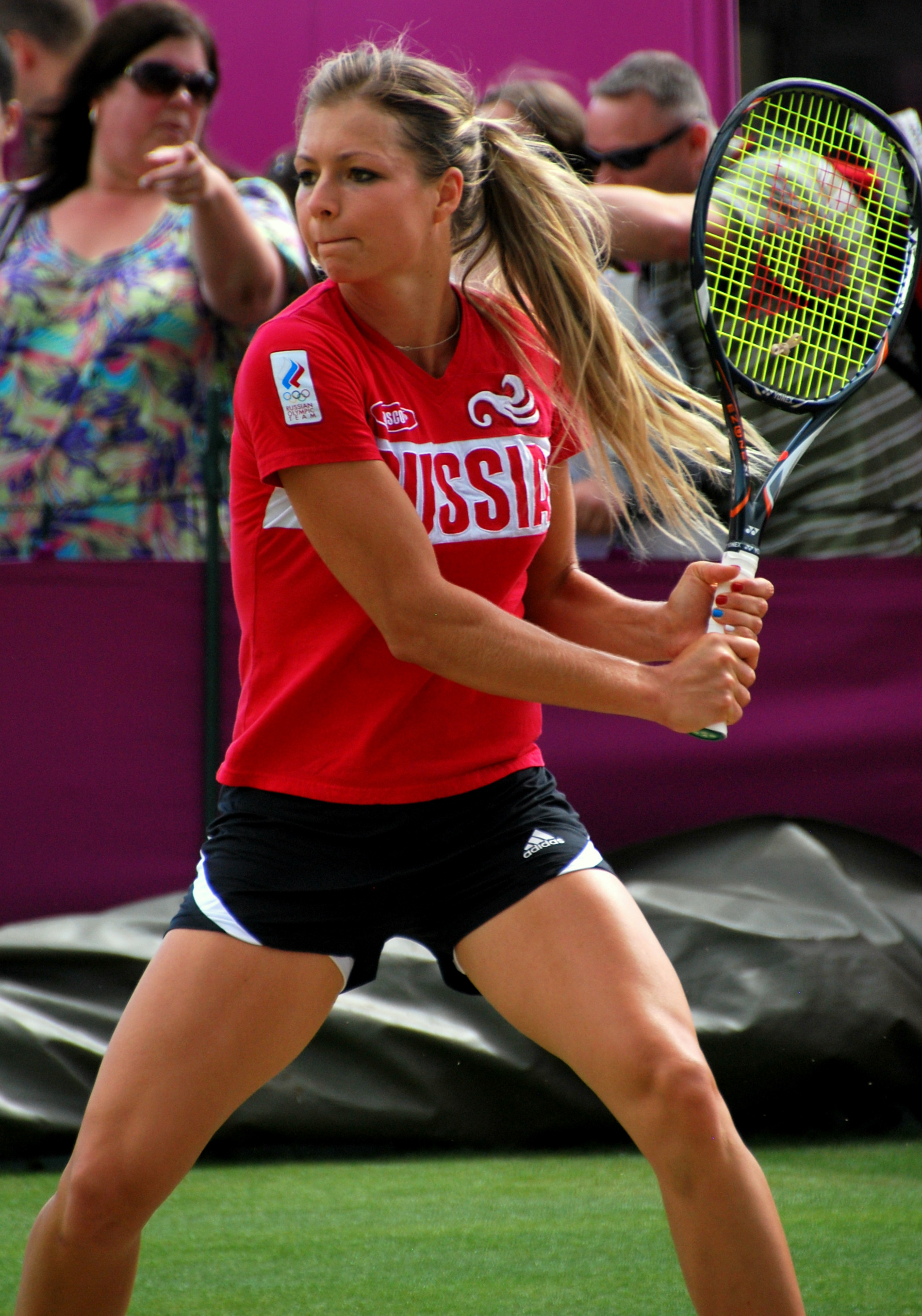 Maria Kirilenko on the practice court with Russian team-mate and doubles partner Nadia Petrova, before her first round match in the London 2012 Olympics at Wimbledon.